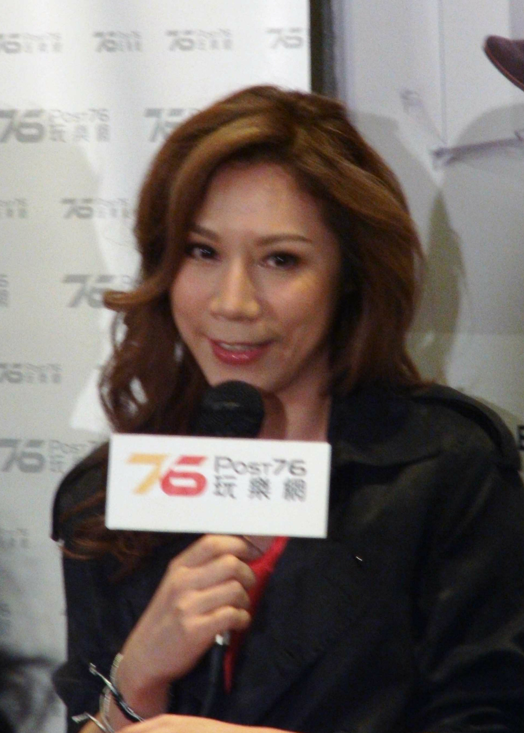 Hong Kong singer Angela Pang is having a Album Sharing of "It's All About Angela Pang" at Cubus, Causeway Bay, HK